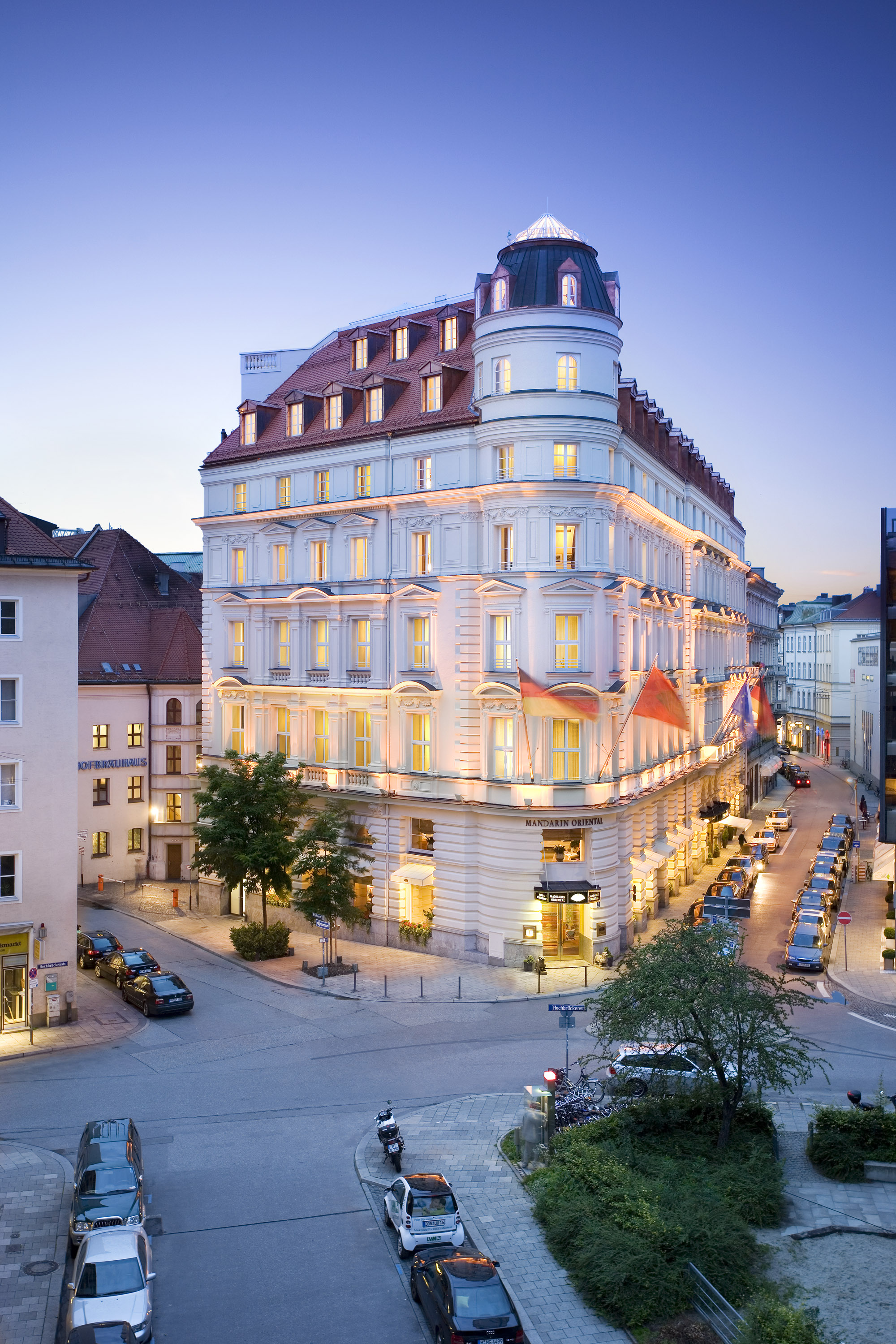 View of Mandarin Oriental, Munich